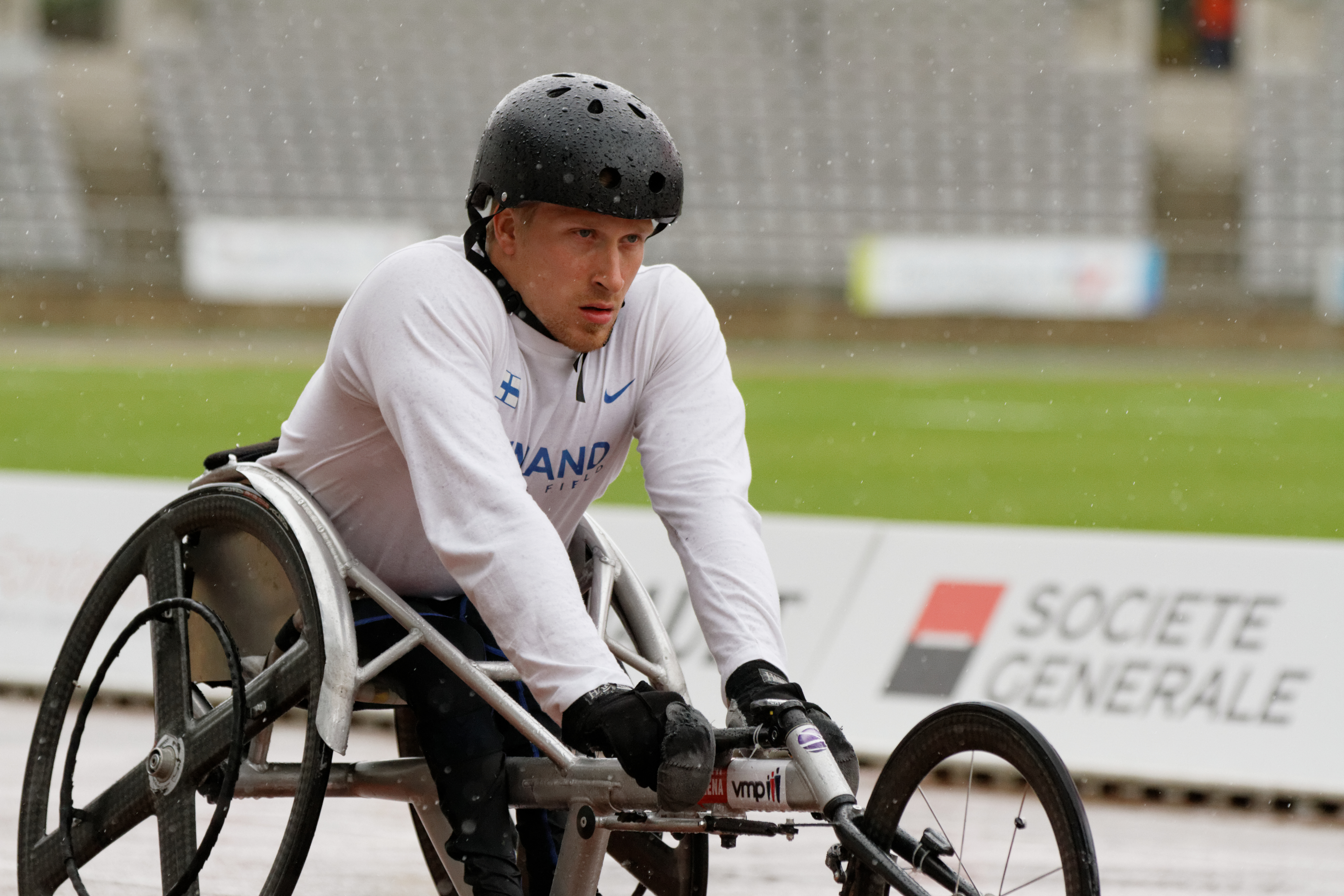 Leo-Pekka Tähti, wheelchair racing, Paris Athletics Paralympic Meeting, June 4th, 2014, Charlety stadium.